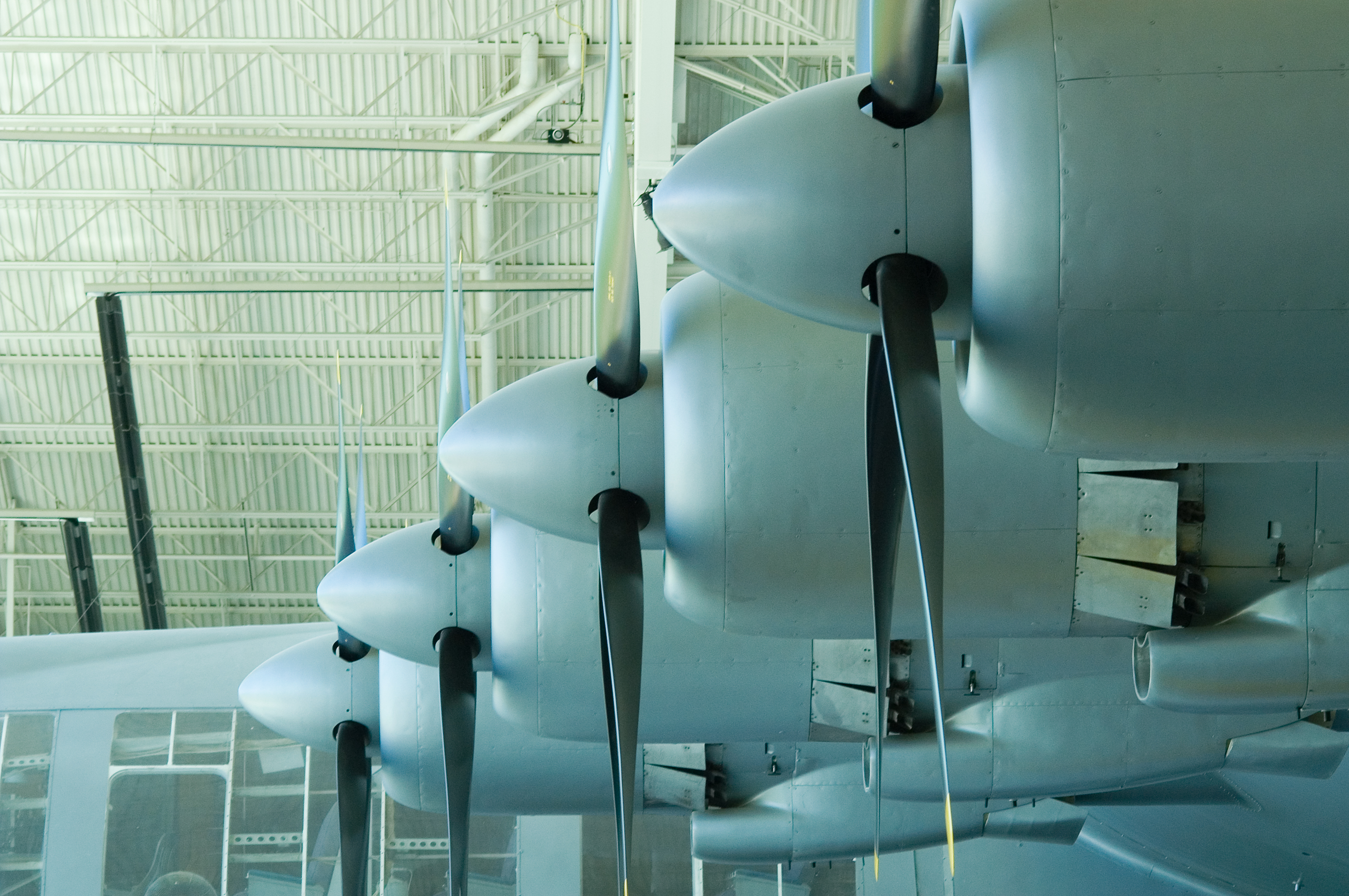 The four port engines on the Spruce Goose - Howard Hughes' very large flying boat.